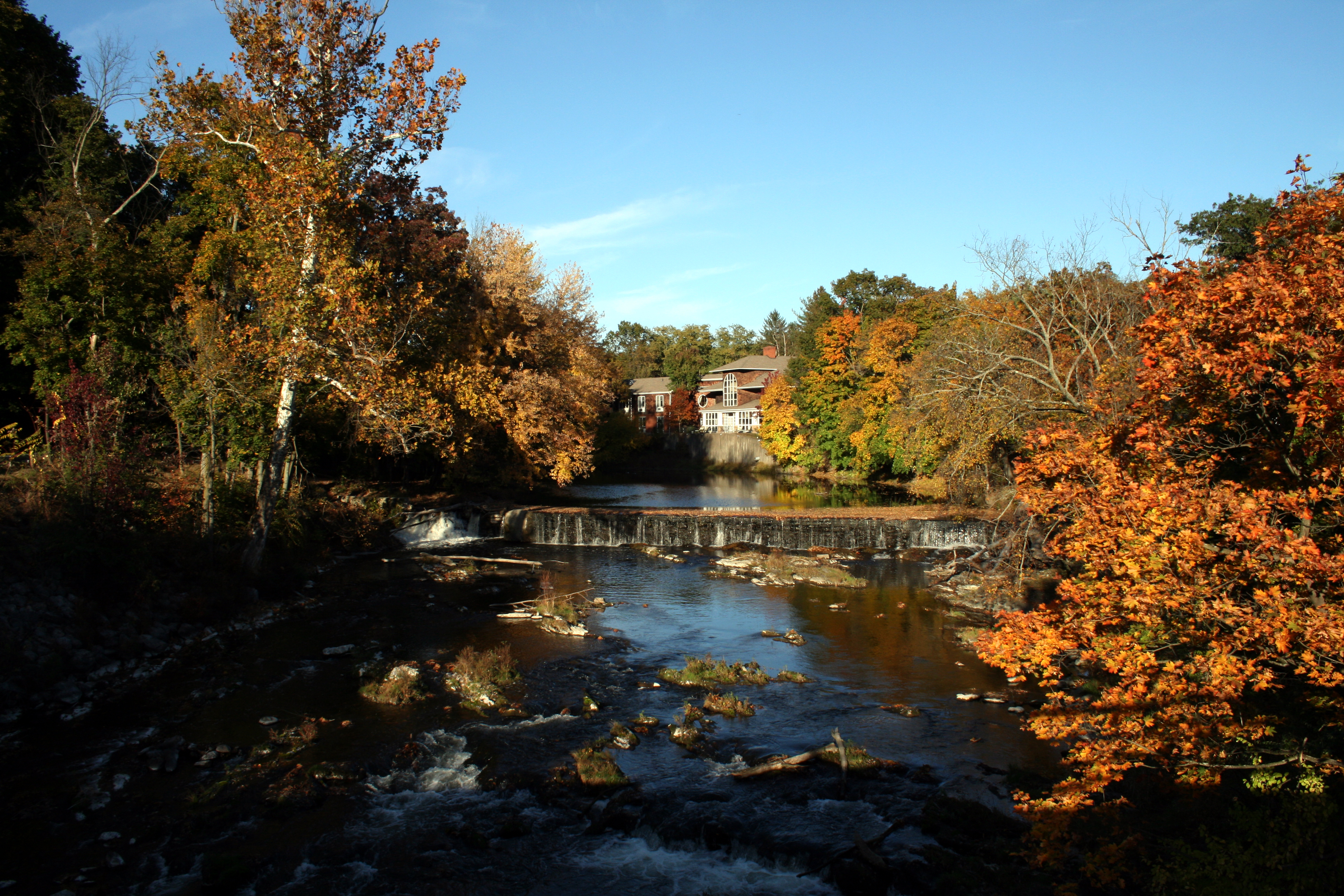 Inn at the Falls in Red Oaks Mill, New York.